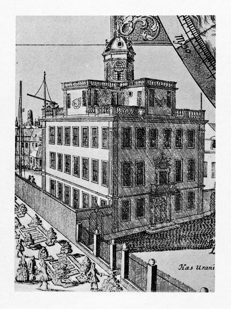 Palais Bellevue in Kassel, Germany used as observatory Johann Gabriel Doppelmayr: Atlas novus coelestis (…), Nürnberg 1742.